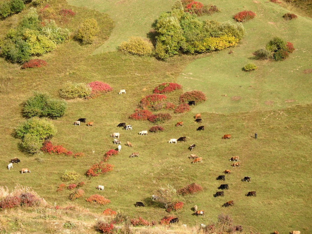 Cattle on mountain pasture, Guduari, Georgia